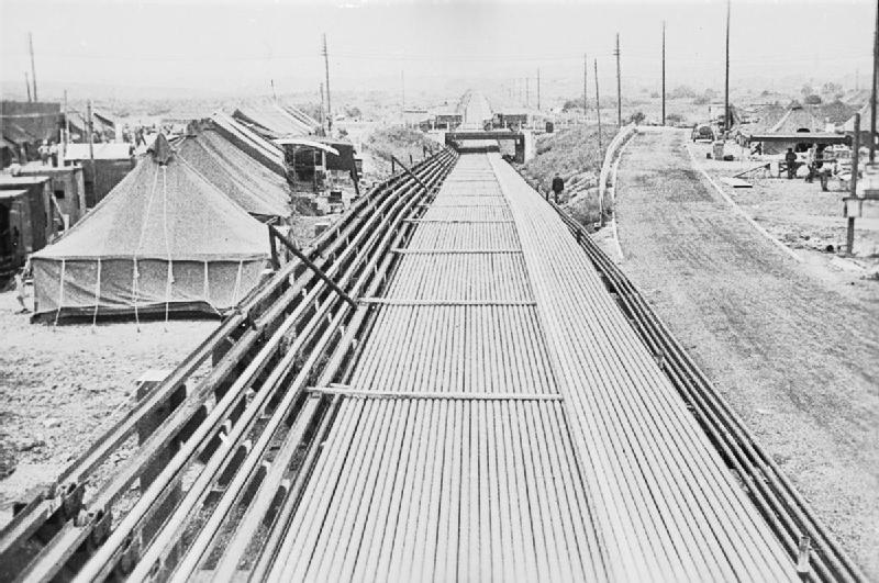 Laying the pipeline: Pipe being stored in three quarter mile lengths before being wound onto the 'Conundrum'.